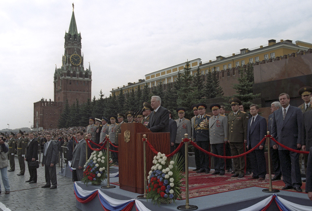 “Boris Yetsin on Red Square on the Victory Day”. Speech of Russian President Boris Yetsin at the military parade on Red Square to mark the 53rd anniversary of the Victory in the Great Patriotic War of 1941-1945.